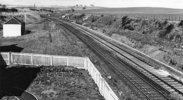 Site of Burnmouth Station. View NW, towards Edinburgh, and Eyemouth; ex-North British East Coast Main Line, Berwick-on-Tweed - Edinburgh section, junction of branch to Eyemouth. Burnmouth station and the Eyemouth branch were both closed 5/2/62.